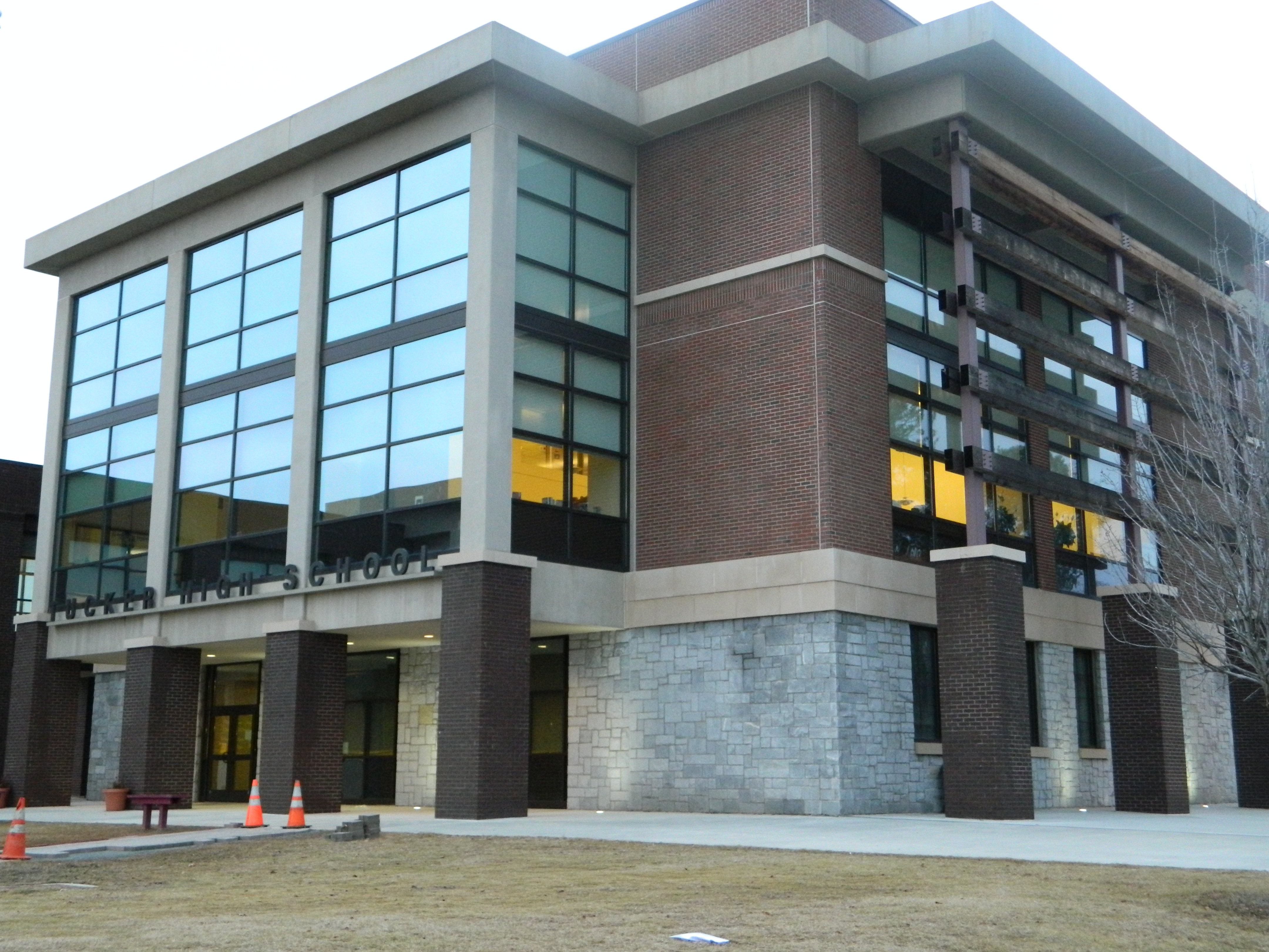 Tucker High Scool, Tucker Georgia 2013